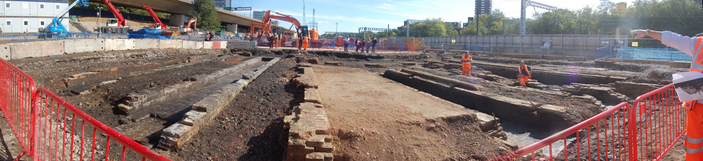 Excavation of a Victorian locomotive shed between Royal Oak and Westbourne Park stations. The site is being cleared to make room for new tracks etc. as part of the Crossrail project, and was briefly open to the public on the day the original photographs were taken, 2014-10-05.